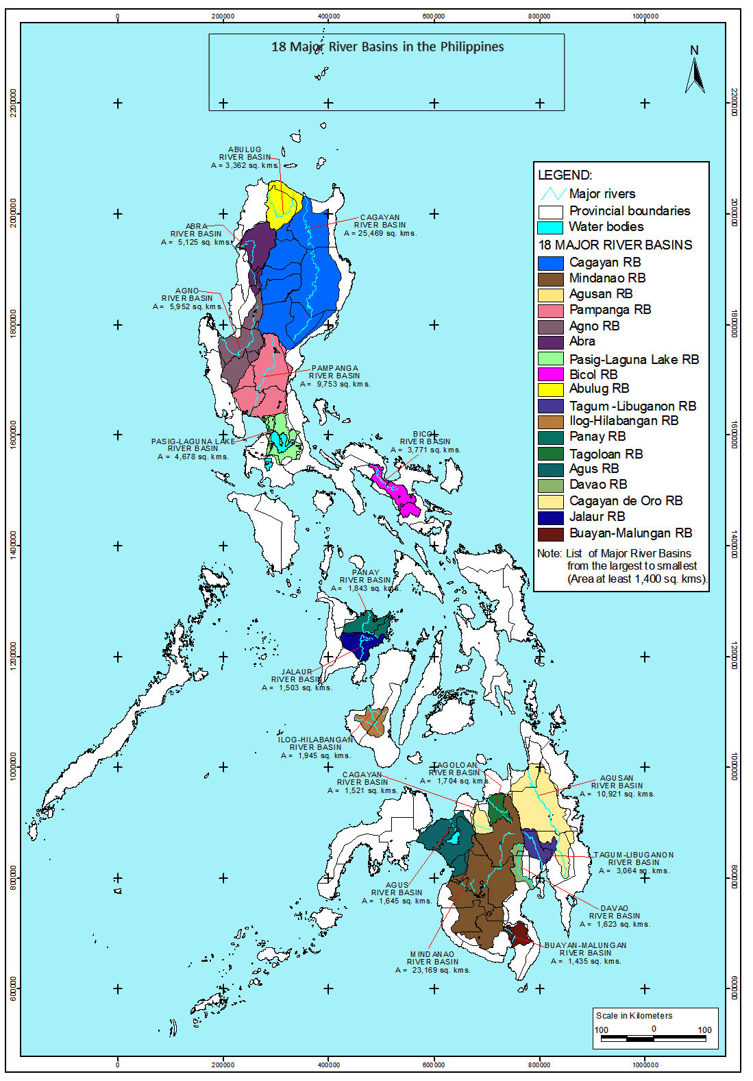 18 Major River Basins in the Philippines Philippine Water Resources Region Map